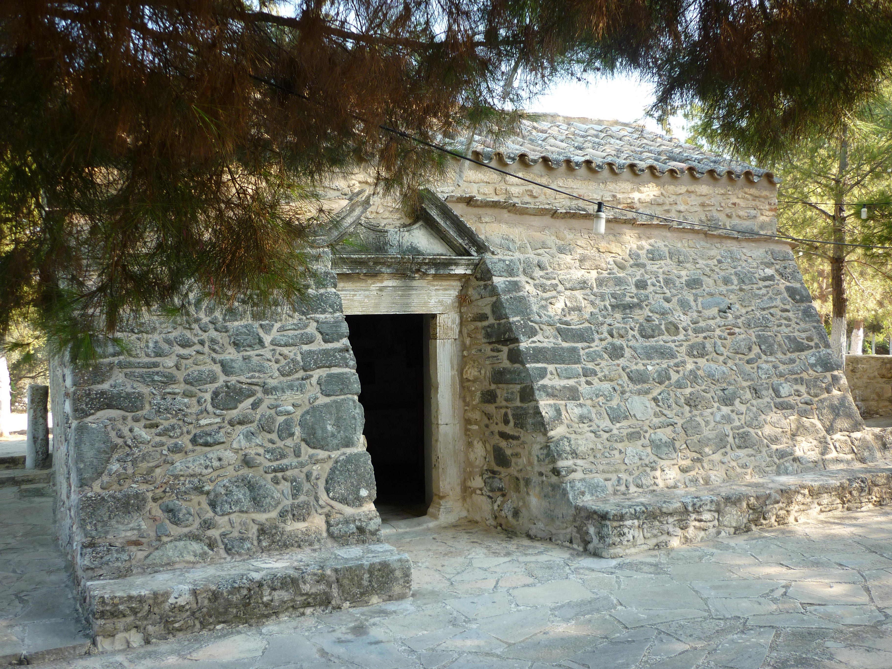 Vori, regional unit Festos, Crete, church of Agios Georgios Kontaras, view from the south